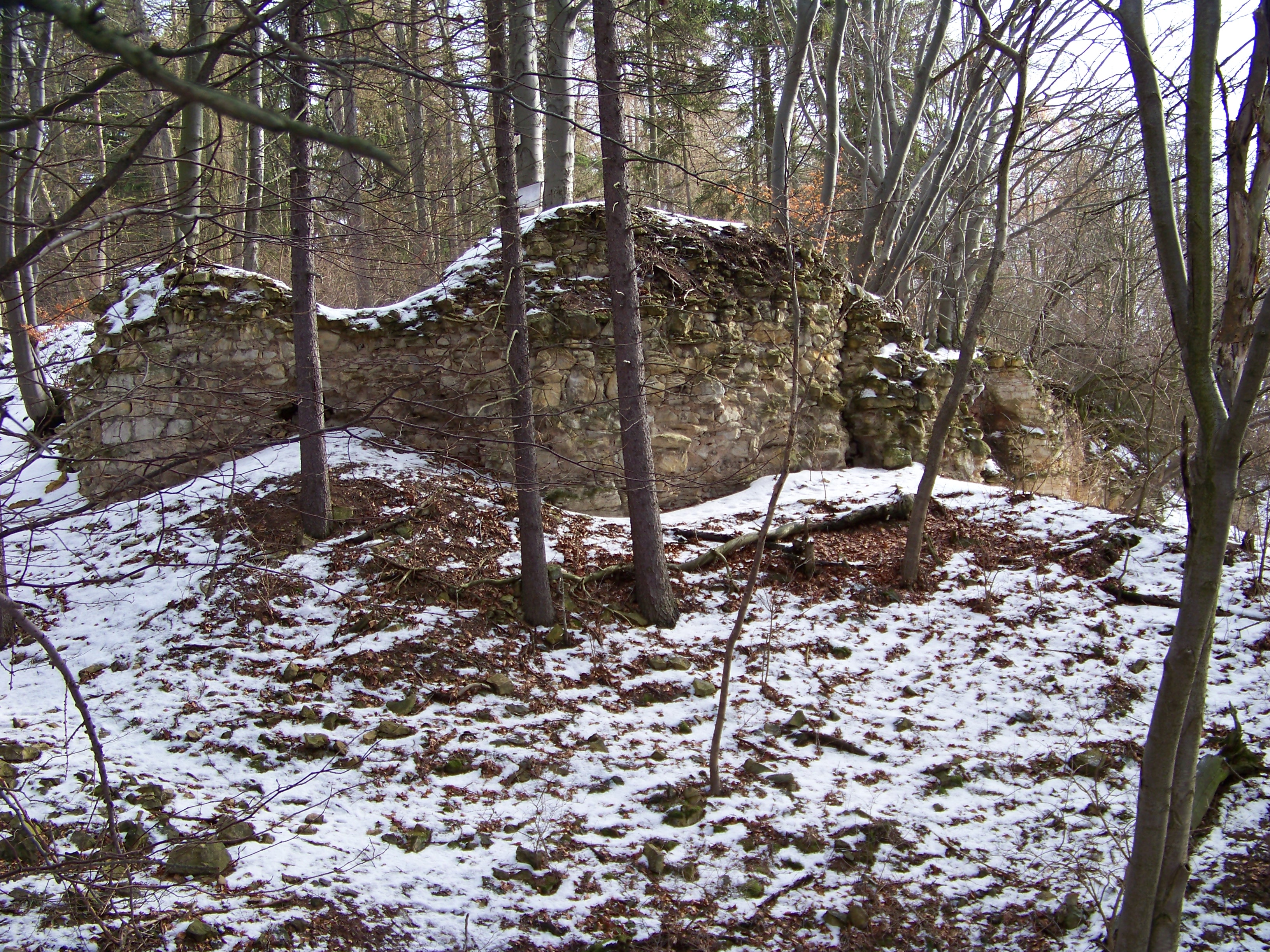 Mutějovice, Rakovník District, the Czech Republic. The ruin of Džbán Castle.